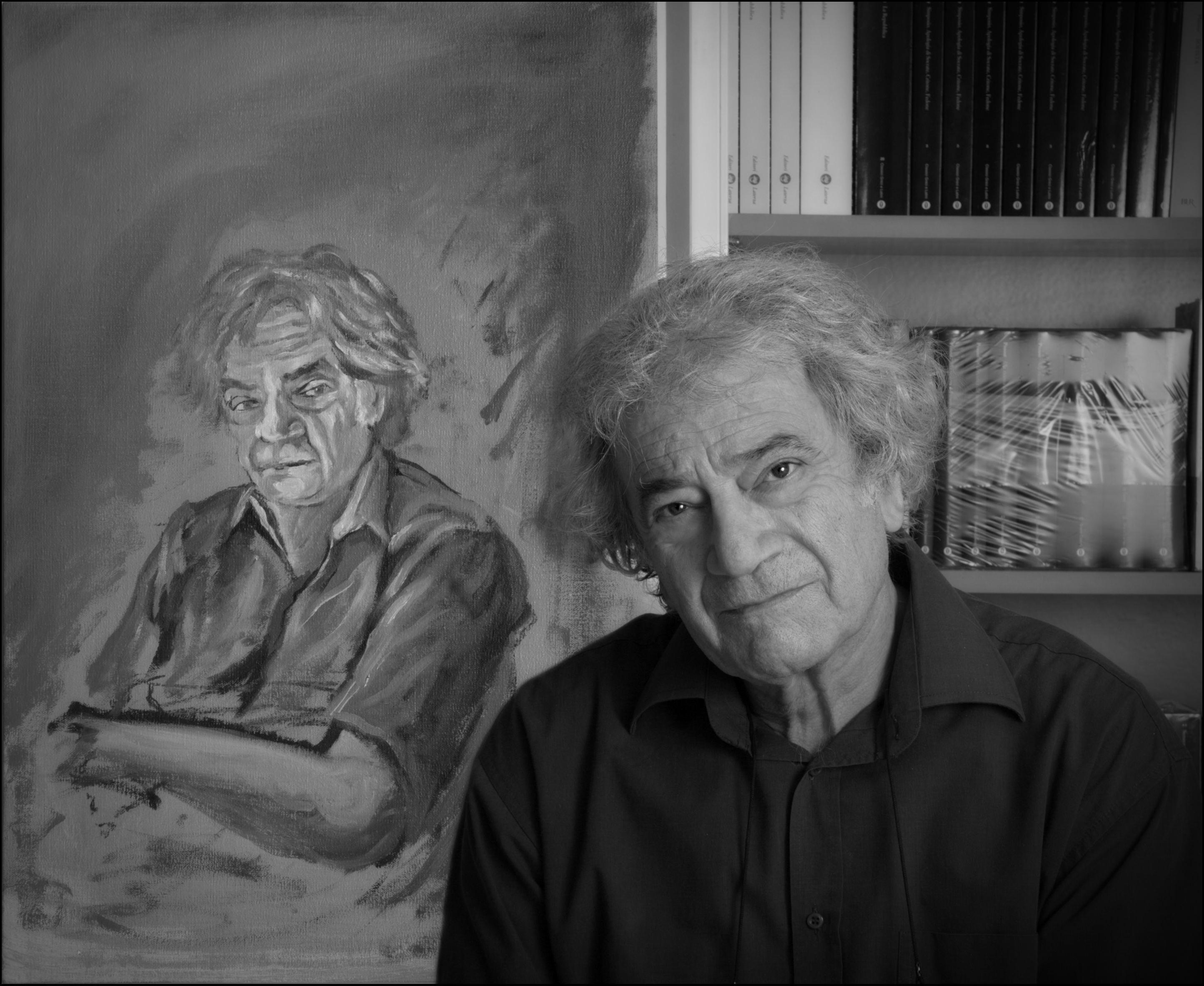 Beppe Costa, picture by Dino Ignani